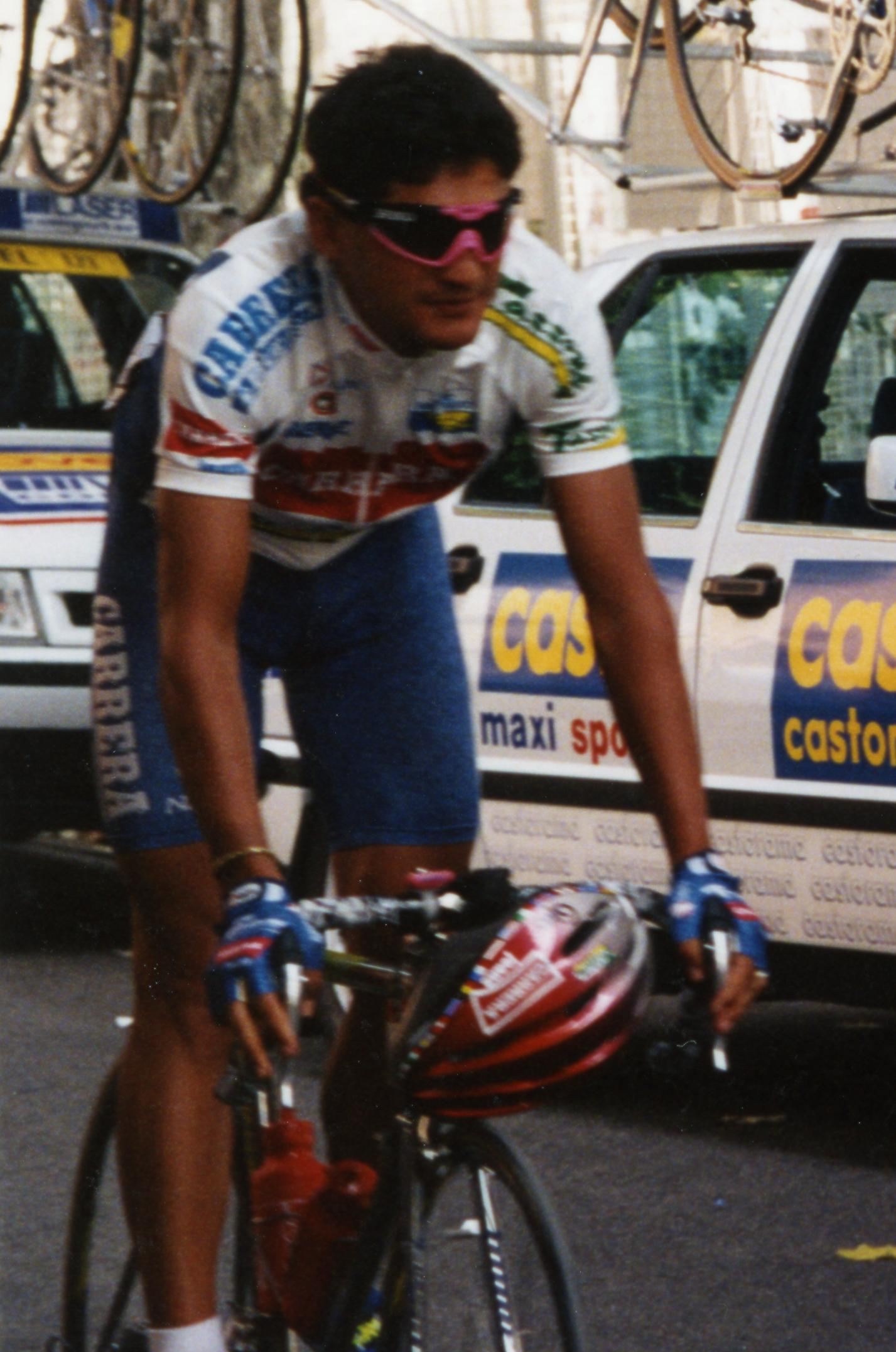 The Italian road cyclist Claudio Chiappucci at the 1993 Tour de France